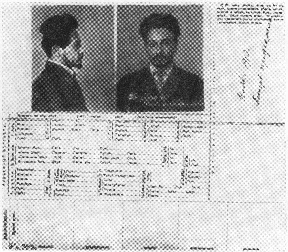 Record card made by tarist police about Yakov_Sverdlov (1885-1919). Sankt Petersburg. 1910.